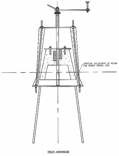 Diagram of a peanut-shelling machine designed as part of the Full Belly project.